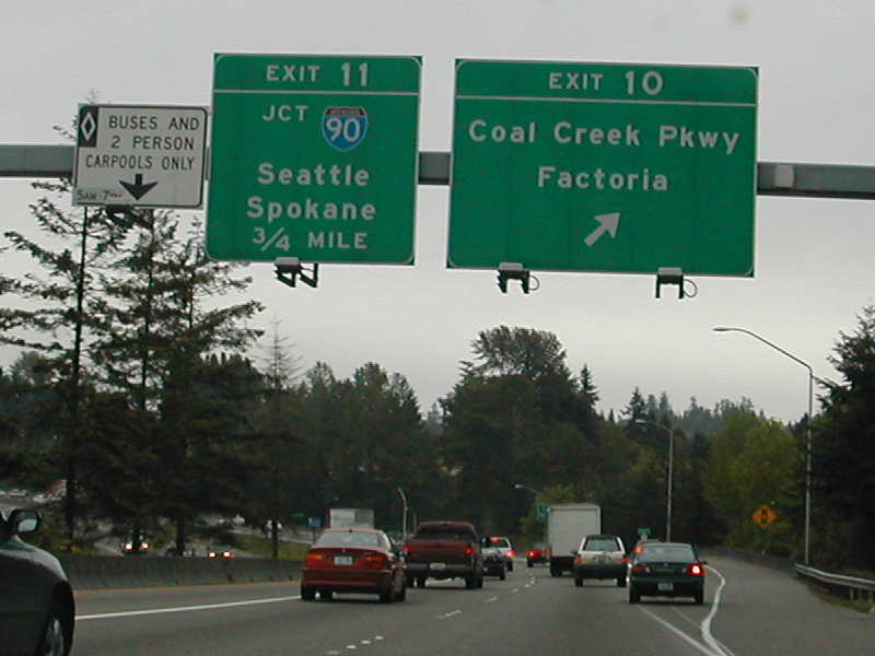 Interstate 405 offramp signs for Exit 10 to Factoria.